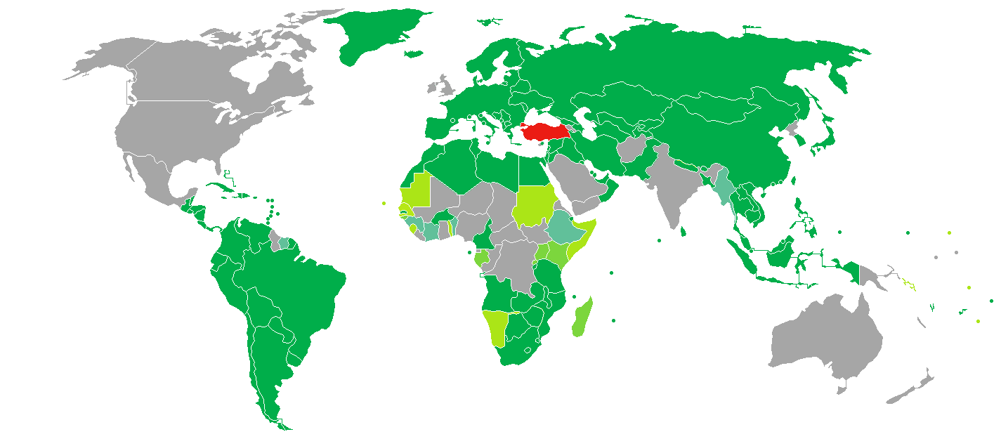 Map of Visa requirements for Turkish Special Passport Holders. 2020